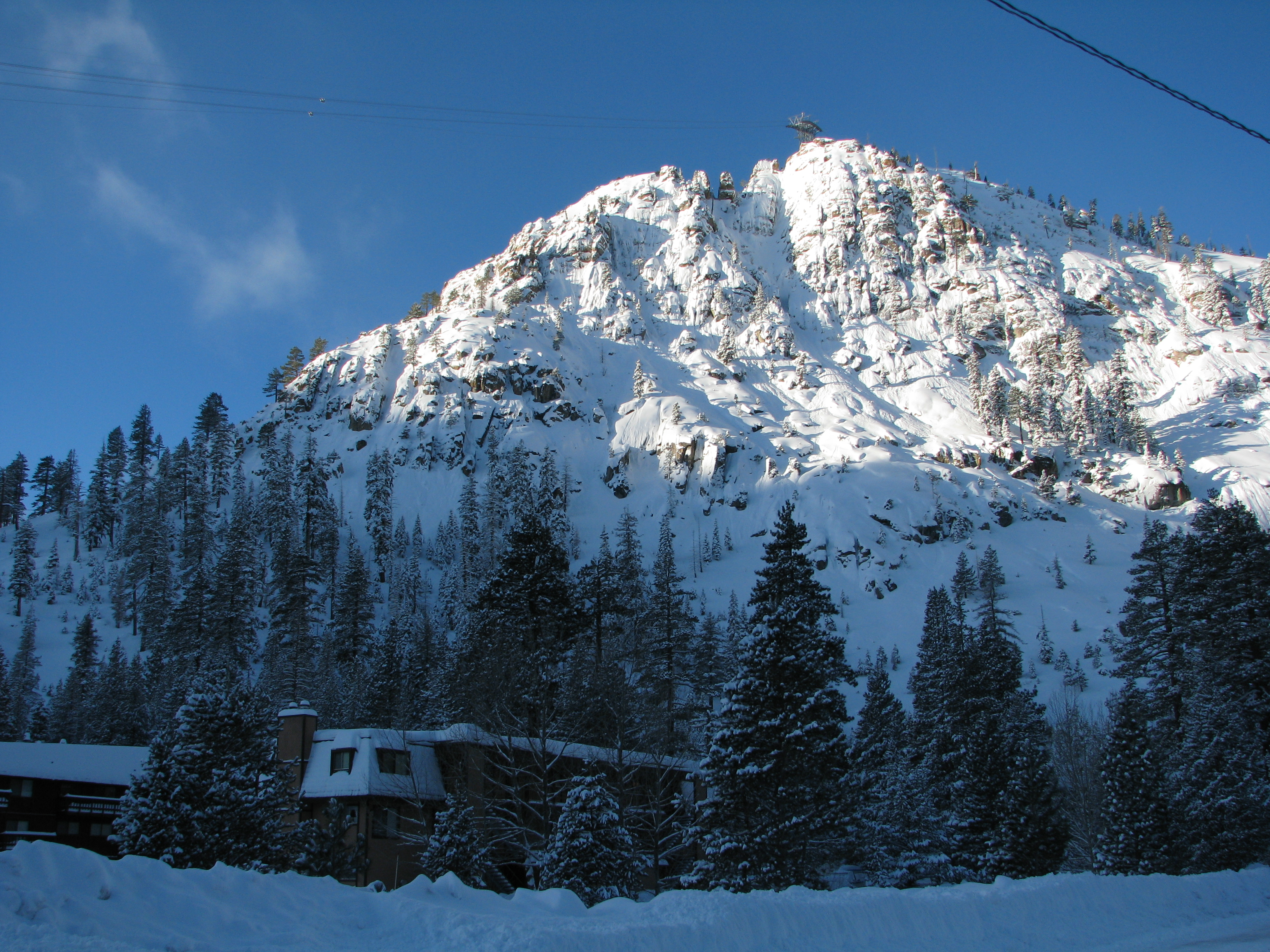 Squaw Valley Ski Resort